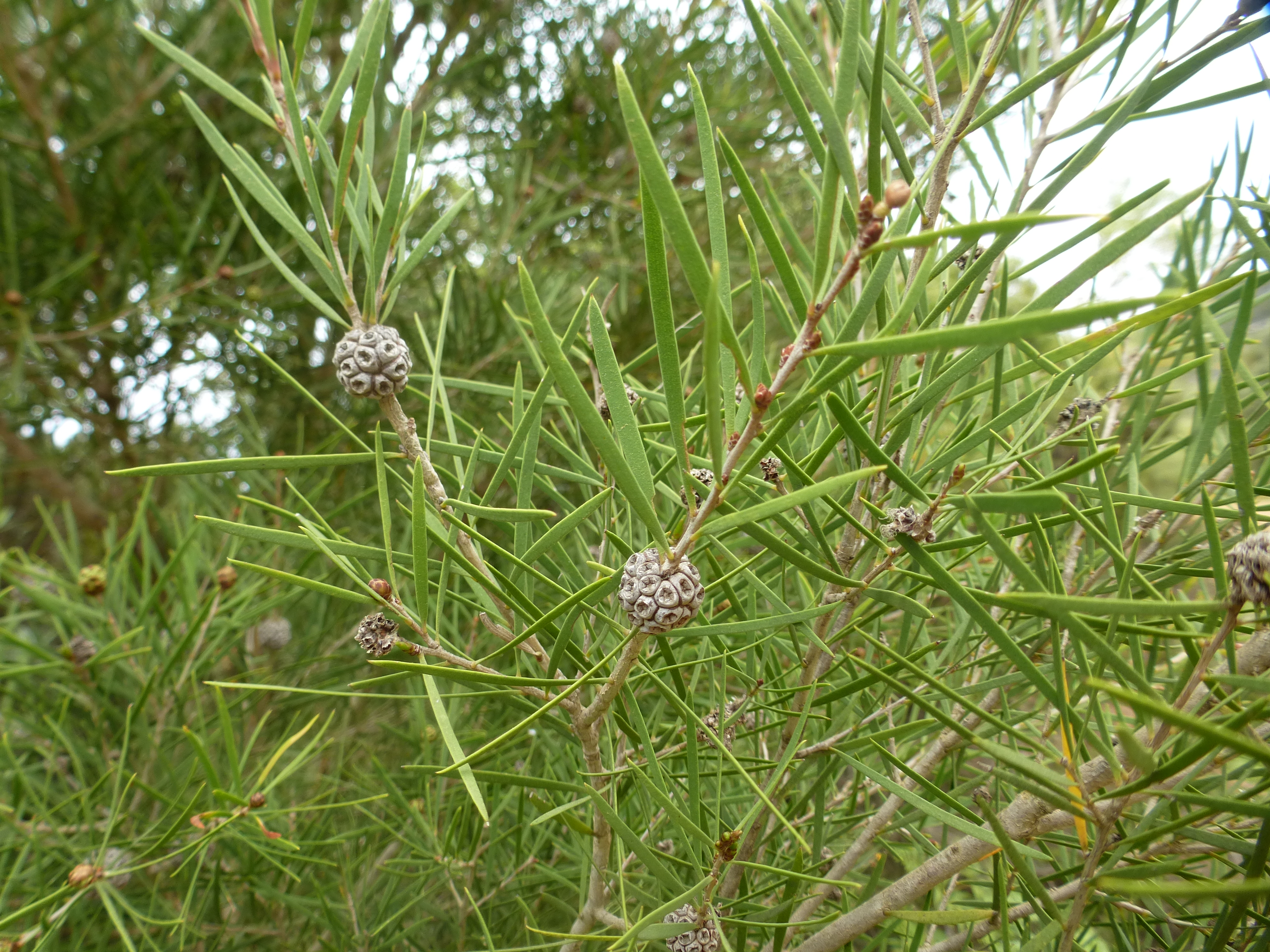 Melaleuca croxfordiae at the type location, Shelly Beach Road (West Cape Howe National Park)